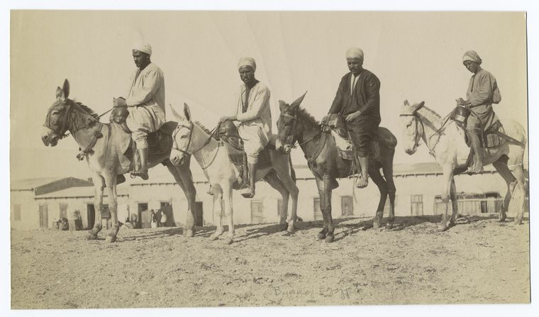 Digital ID: 88446. 1860s-1920s Source: [Photographs and prints of Egypt and Syria.] (more info) Repository: The New York Public Library. Photography Collection, Miriam and Ira D. Wallach Division of Art, Prints and Photographs. See more information about this image and others at NYPL Digital Gallery. Persistent URL: Rights Info: No known copyright restrictions; may be subject to third party rights (for more information, click here)